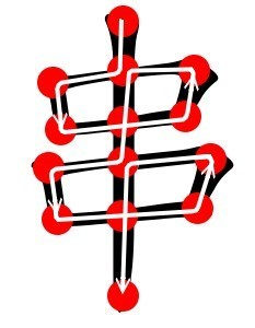 Chinese word "Chuan" 「串」 with Eulerian path